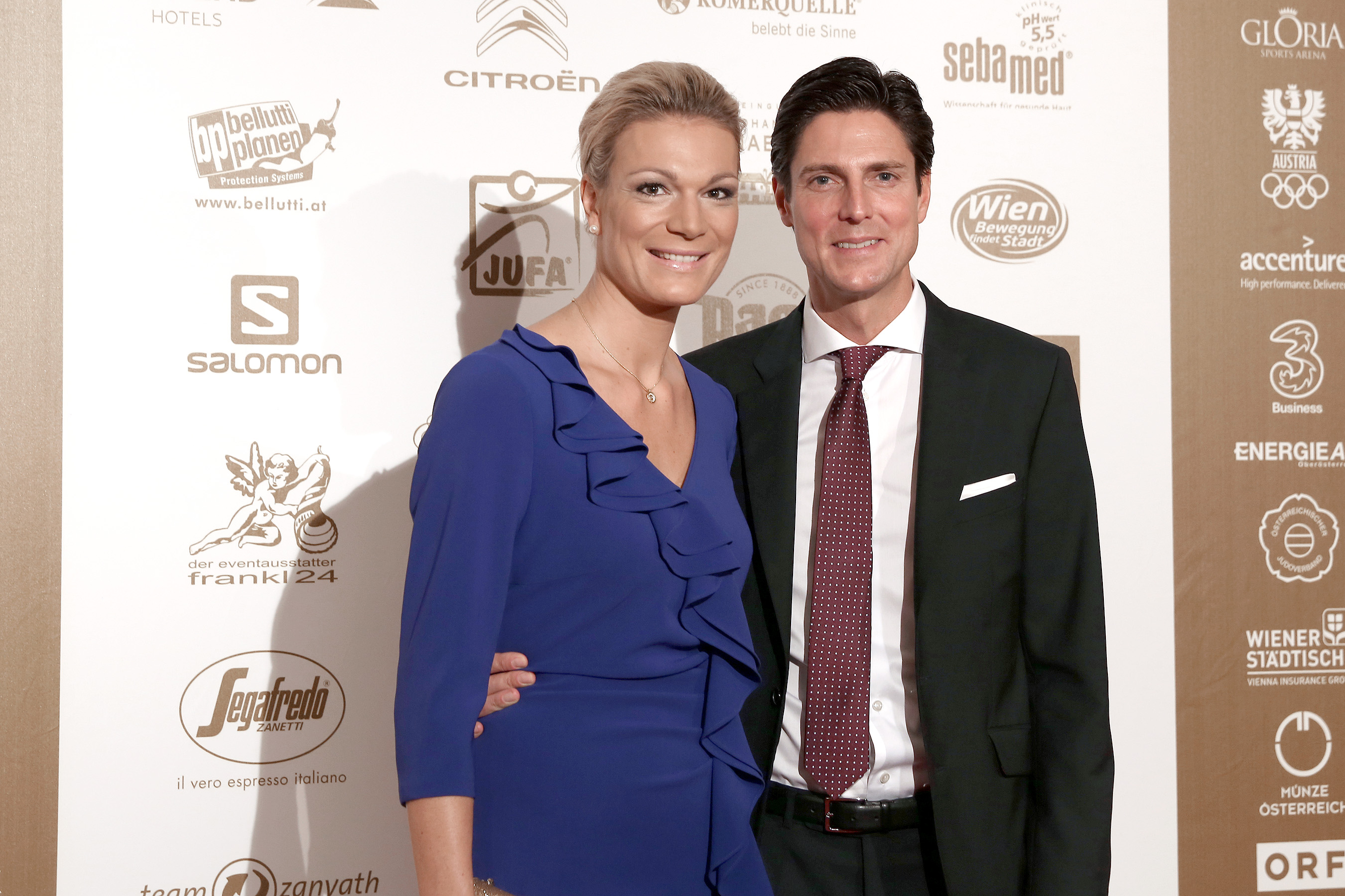 Maria Höfl-Riesch and Marcus Höfl on the red carpet at the award show for the Austrian Sportspersonalities of the Year 2014 (Austria Center Vienna).